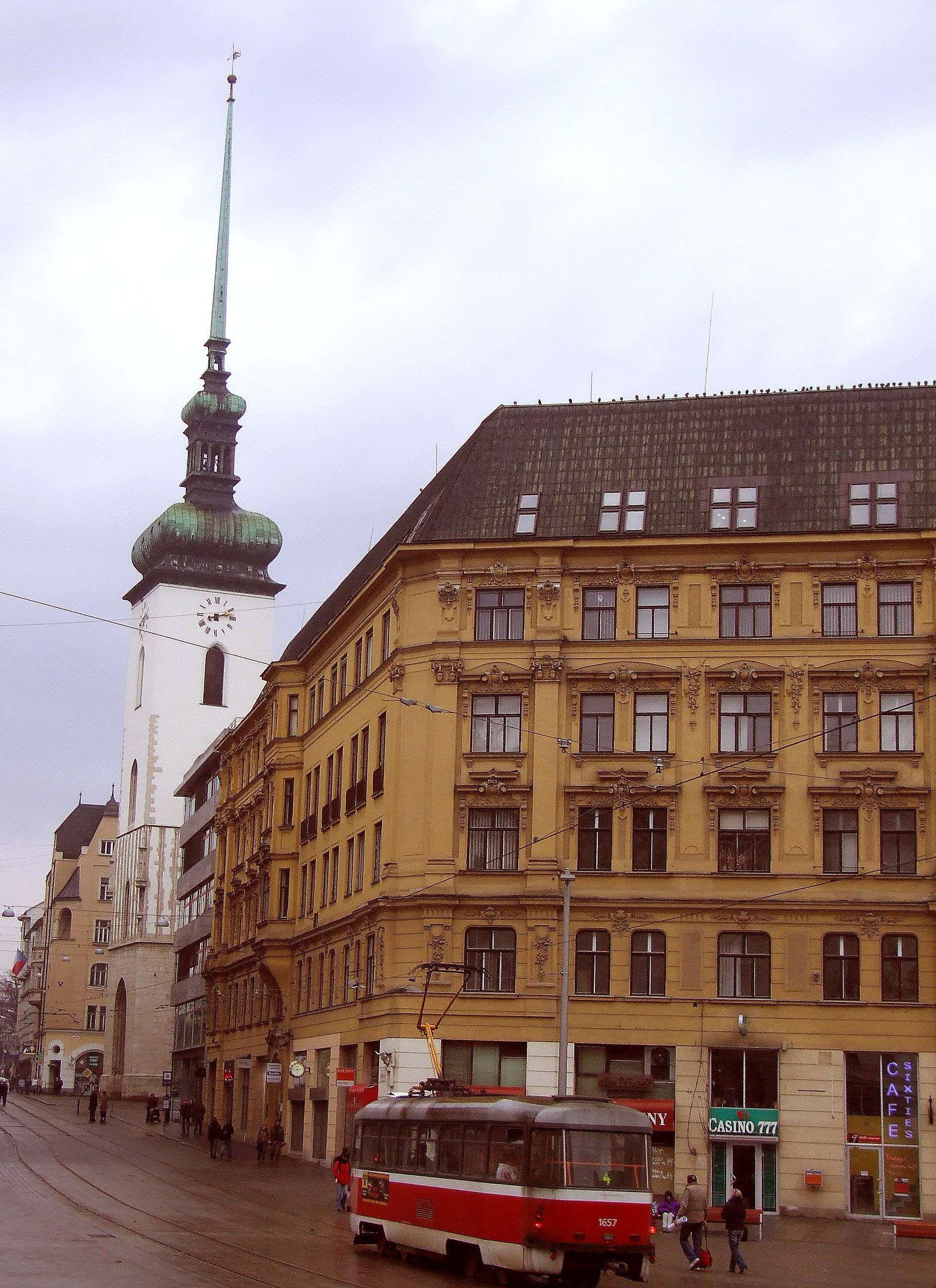 Brno, Moravia, centre of the city